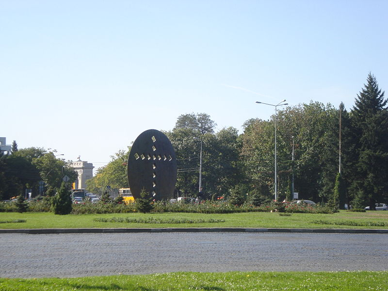 Created by Pixi for ro.wiki, uploaded by me to en.wiki.